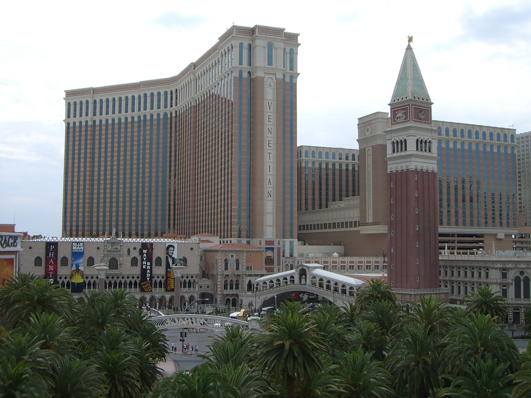 The Venetian Resort Hotel Casino in Las Vegas, Nevada.Venetian Las Vegas, NV